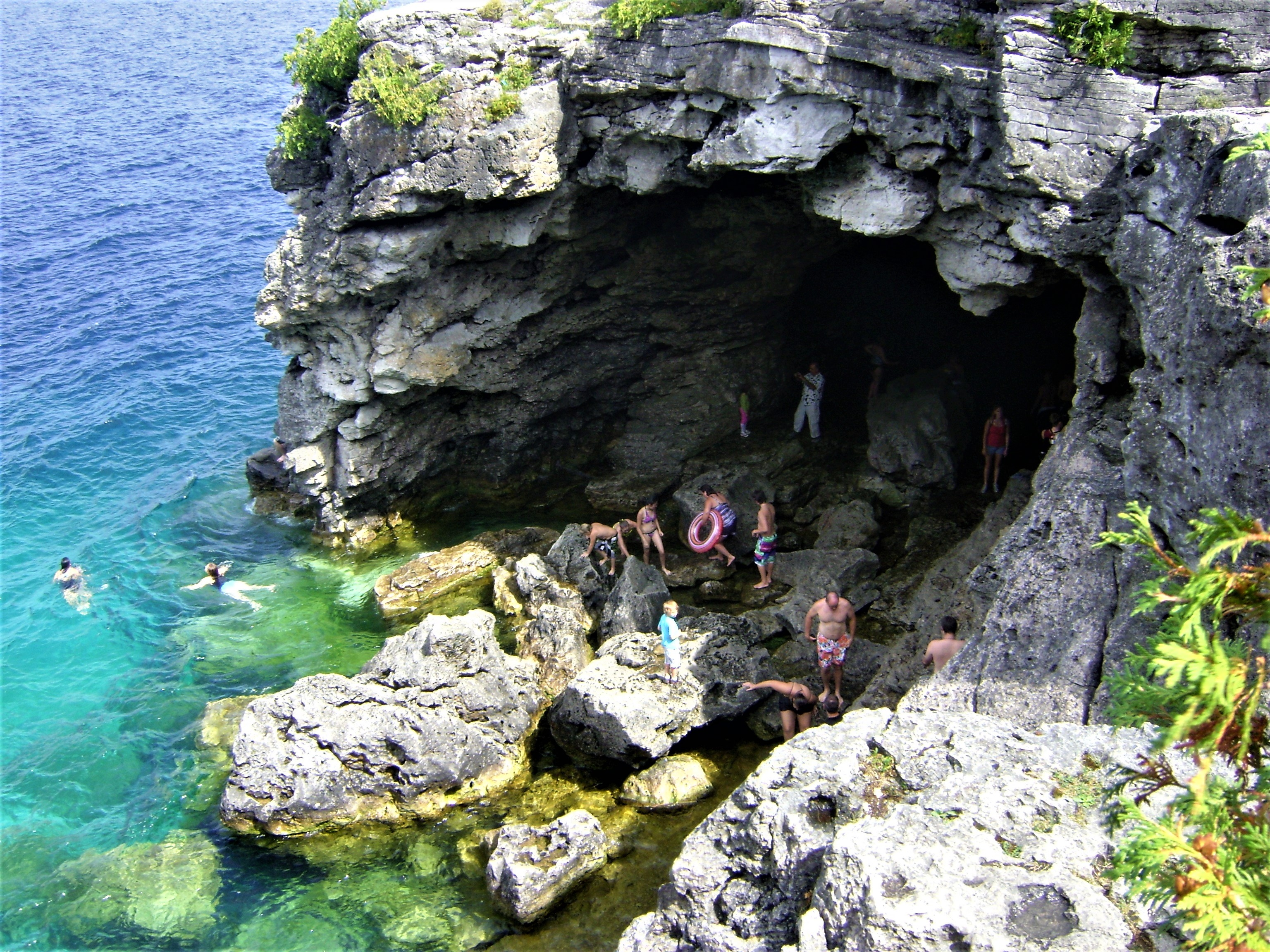 Bruce Peninsula National Park – The Grotto–Ontario This photo was taken in a protected area in Canada, Wikidata item Bruce Peninsula National Park (Q991459)